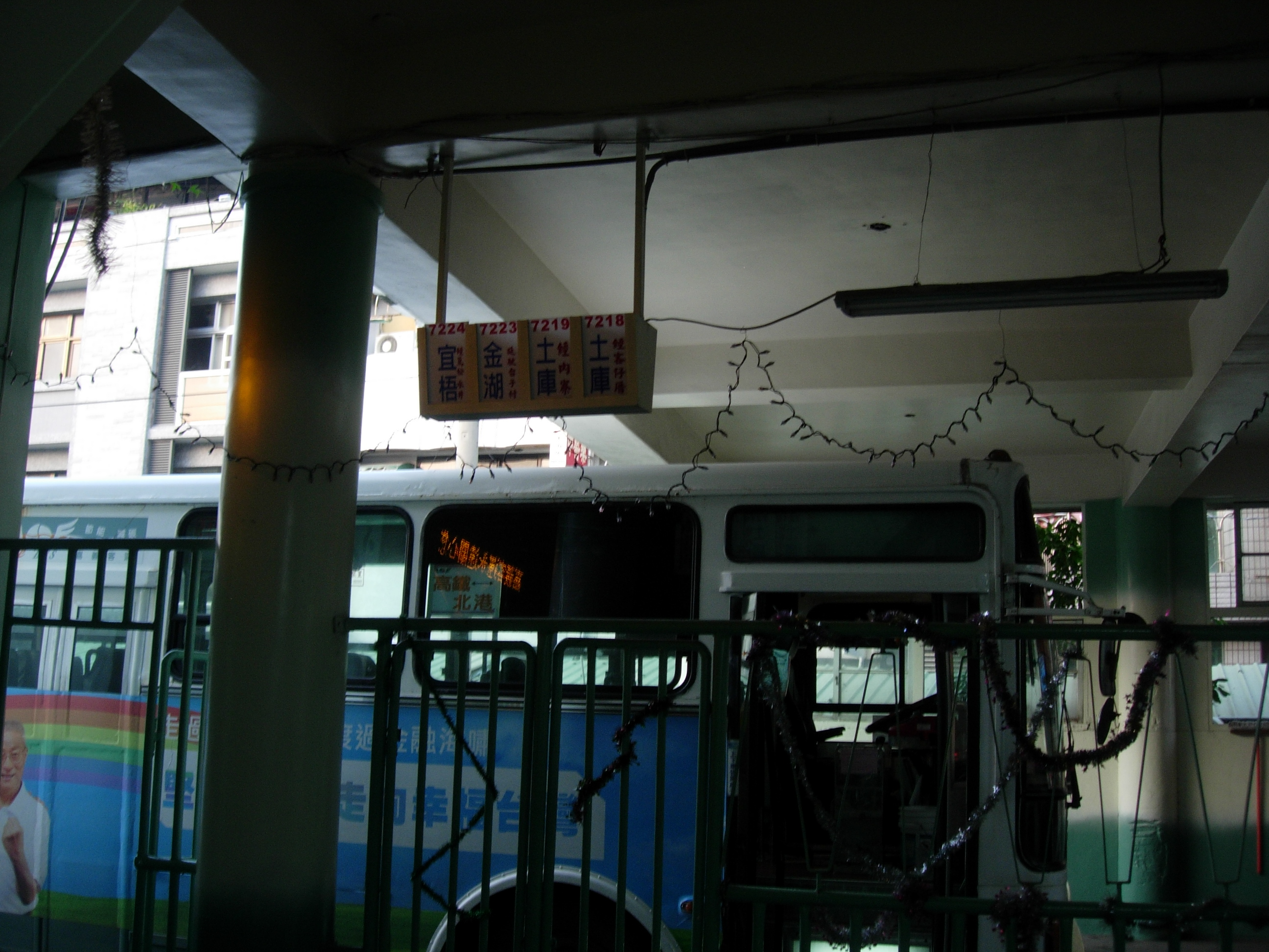 Chia-yi Bus Peikang Station Platform 3中文（台灣）: 嘉義客運北港站月台3。